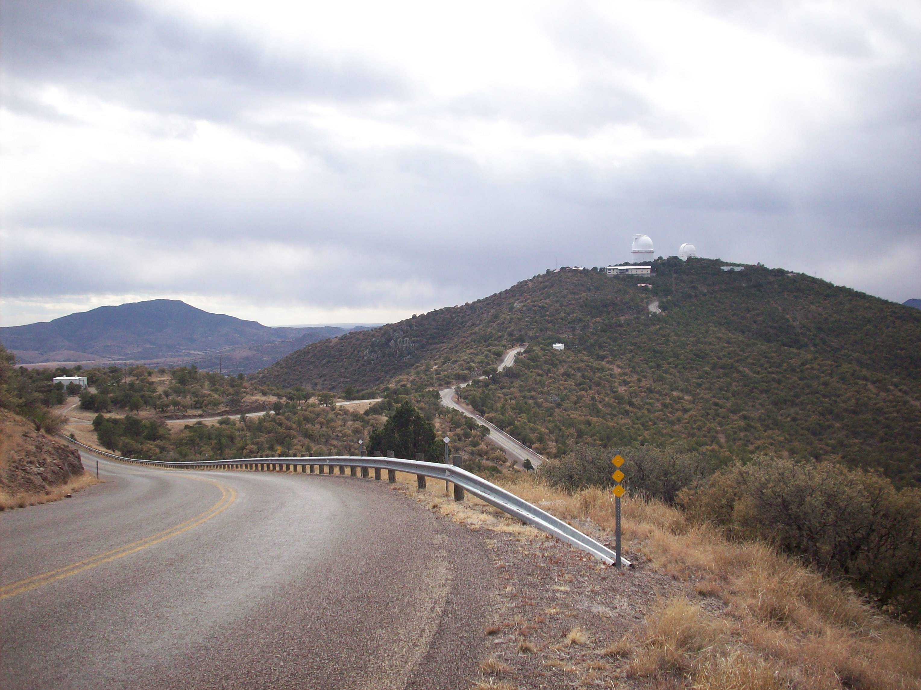 Texas State Highway Spurs 77 and 78 at McDonald Observatory. Spur 78 is ascending Mt. Locke. Spur 77 is in the foreground and to the left.